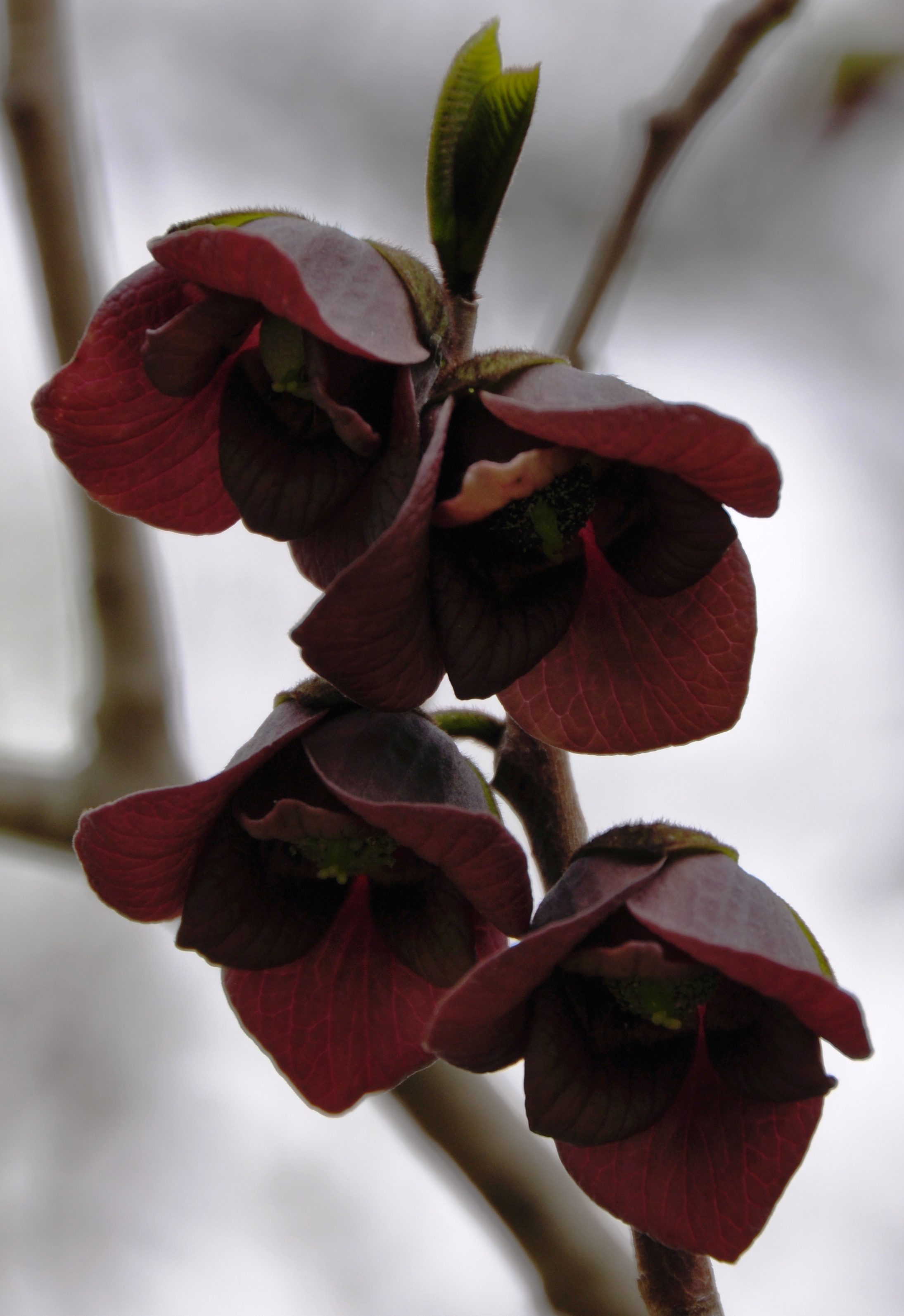 Pawpaw flower